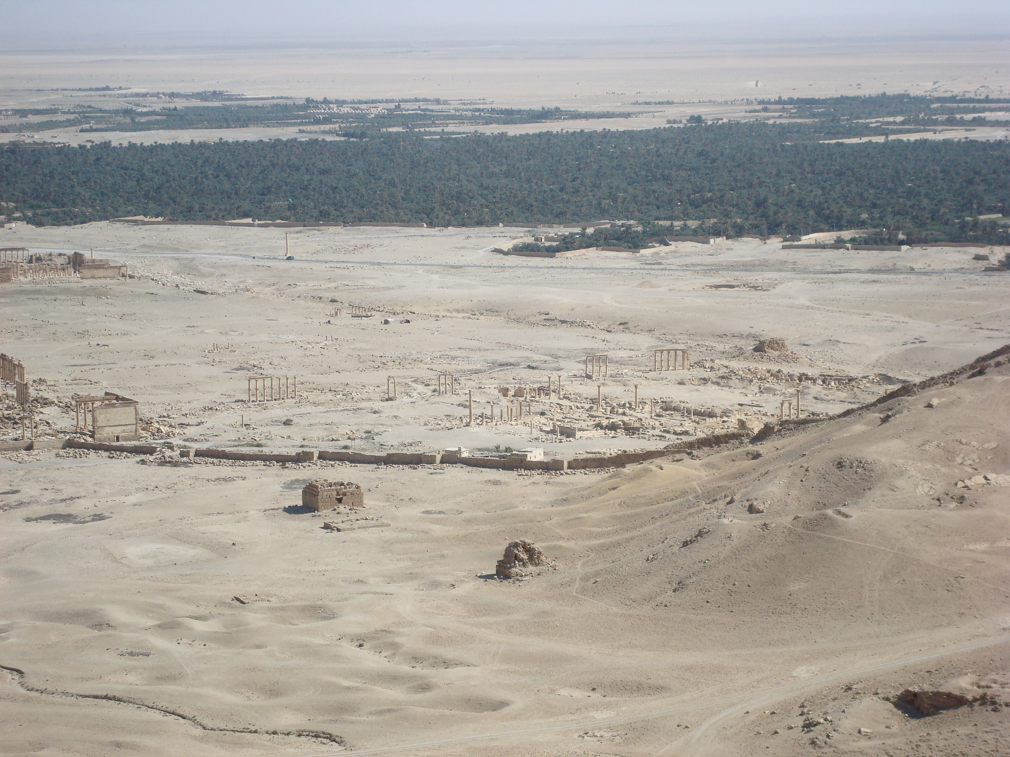 Palmira fron the castle Qalaat Fakhr ad-Din ibn Maan